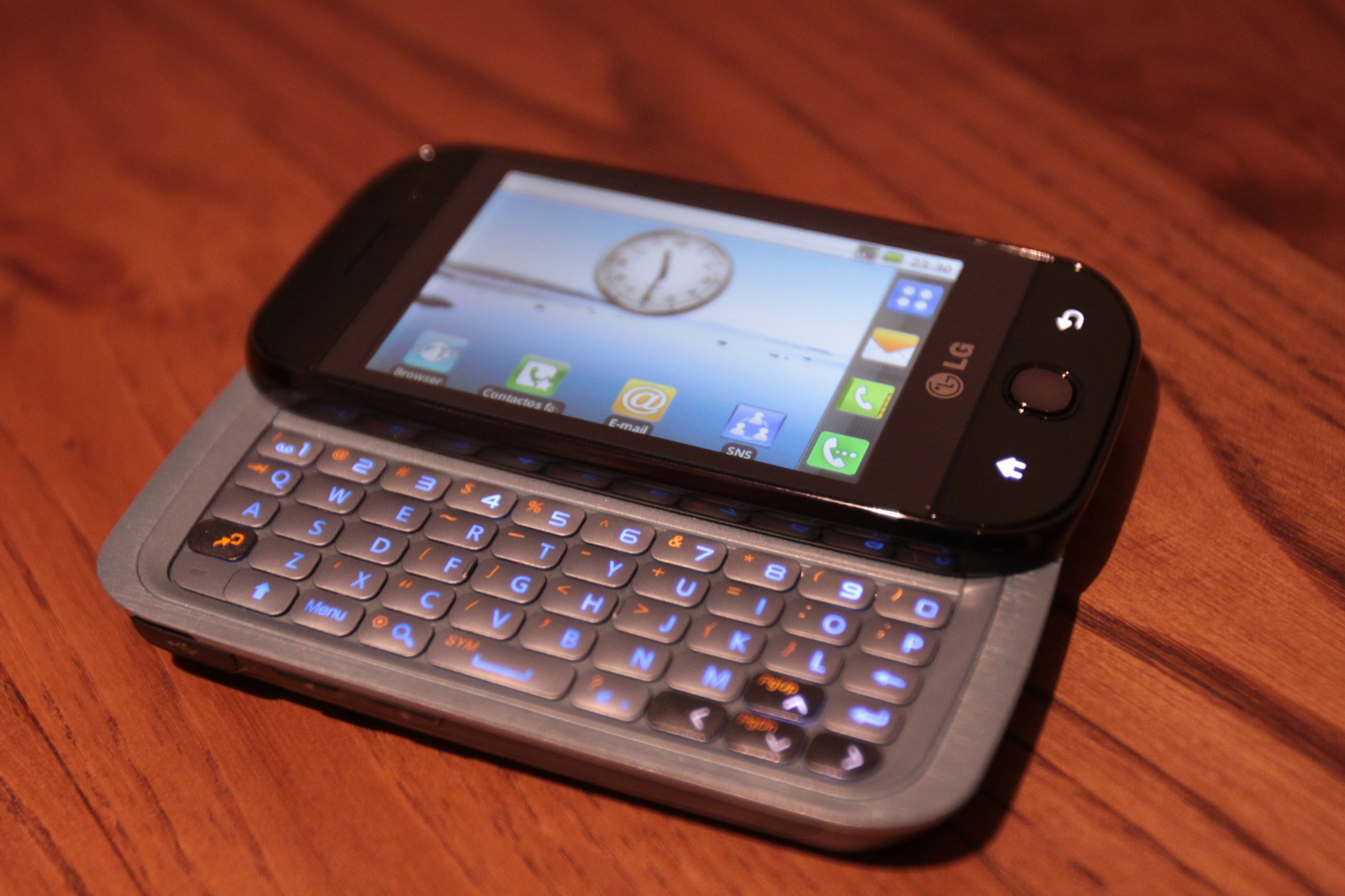 This is the fully opened LG GW620, on home screen showing Android 1.5 Cupcake, which is the original software that it came with.